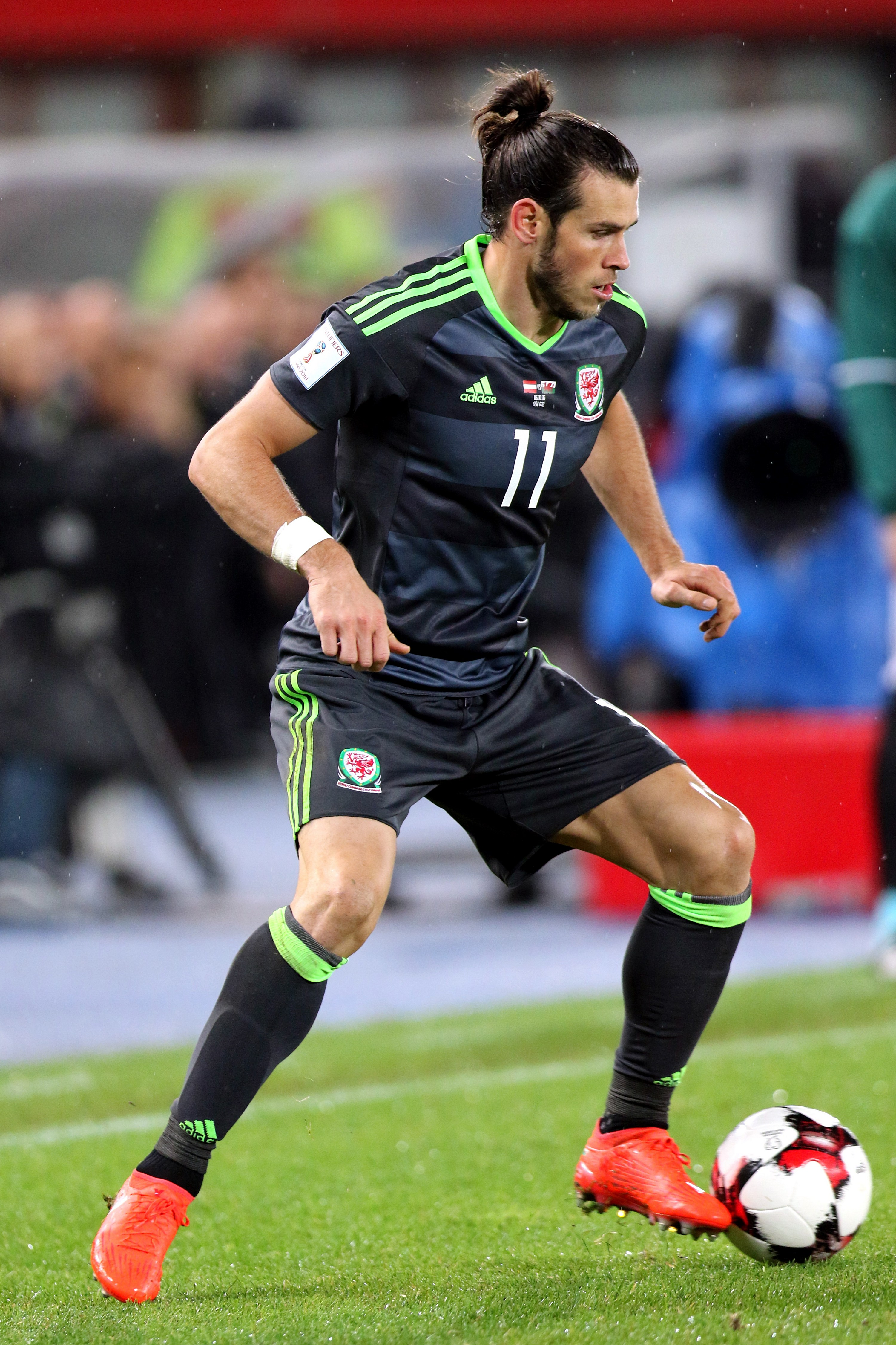 2018 FIFA World Cup qualification – UEFA Group D) – Austria (red shirts) vs. Wales (black shirts) 2-2 (1-2) – 2016-10-06 in Vienna, Ernst-Happel-Stadion – The photo shows Gareth Bale.